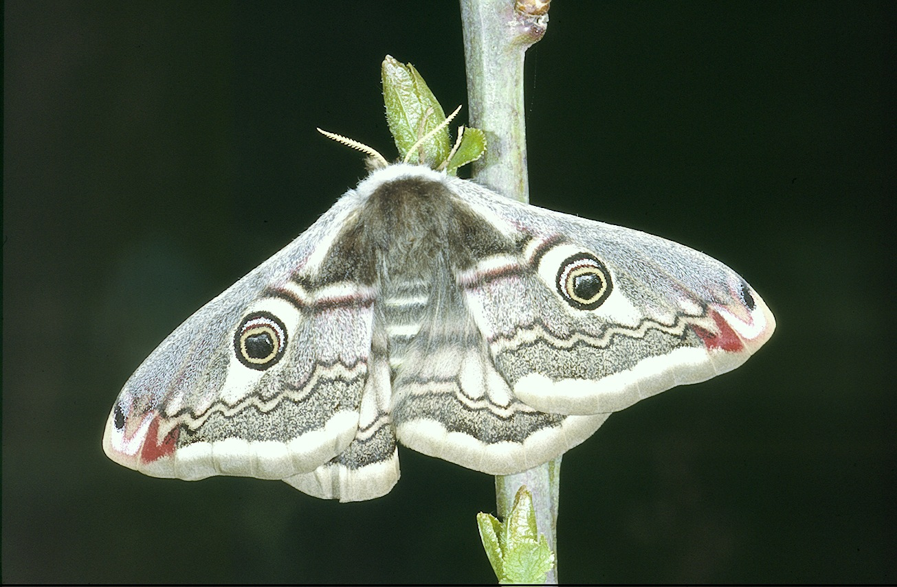 Butterfly moth SATURNIA PAVONIA (french:Petit paon de nuit) photographed in breeding cage. Sex female. Picture N°8 / 11.